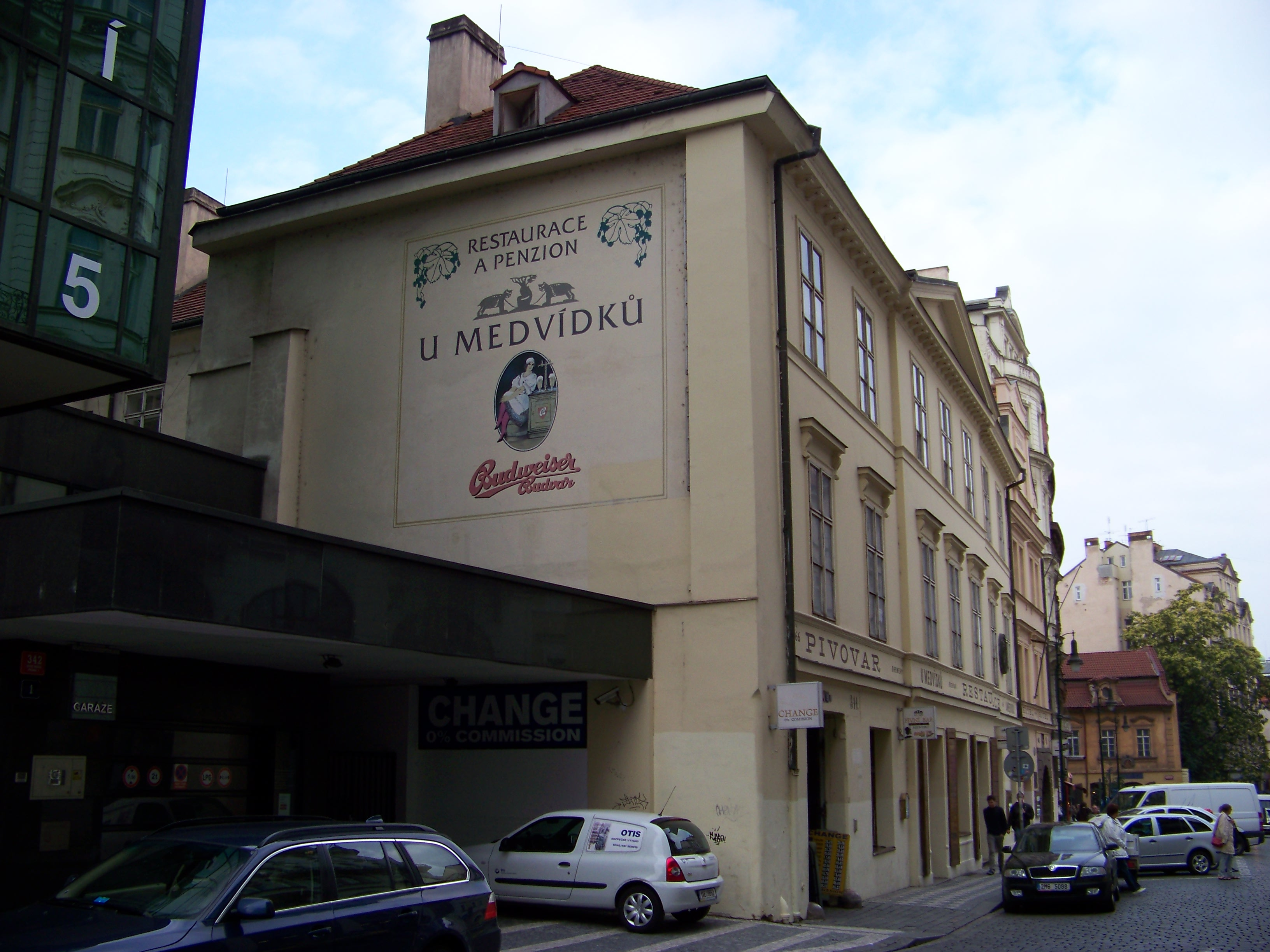 Prague-Old Town. Na Perštýně 344/5, U Medvídků.